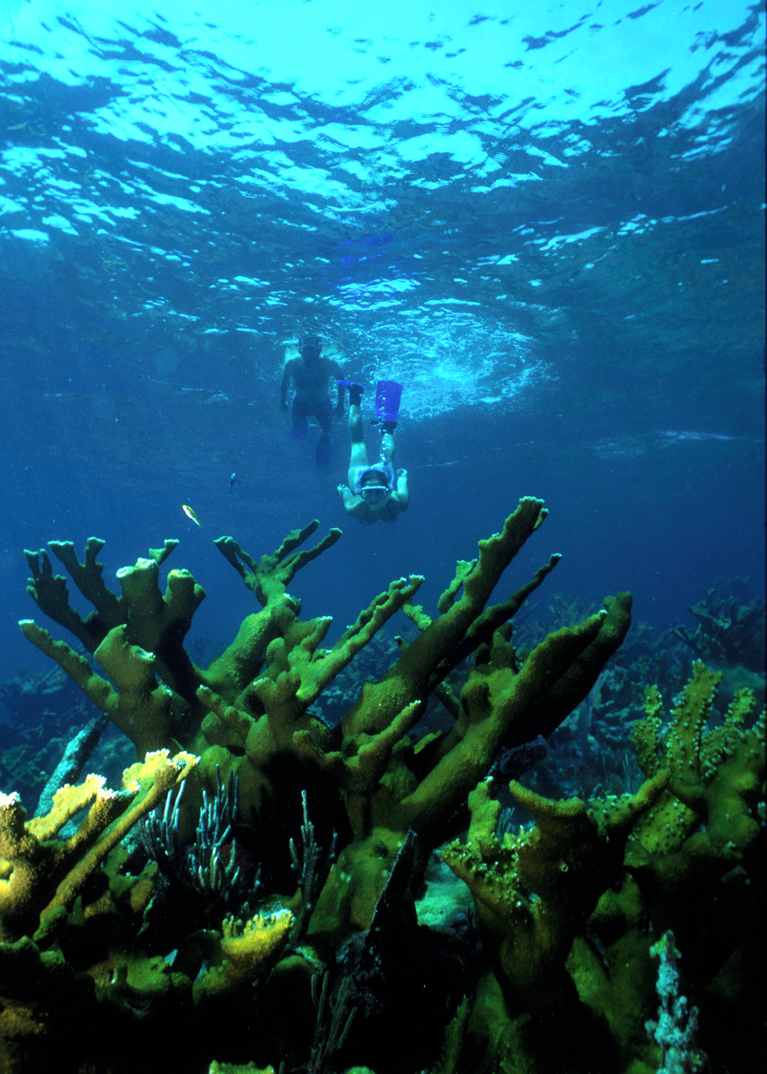 Two snorkelers explore Biscayne National Park's Elkhorn Reef.